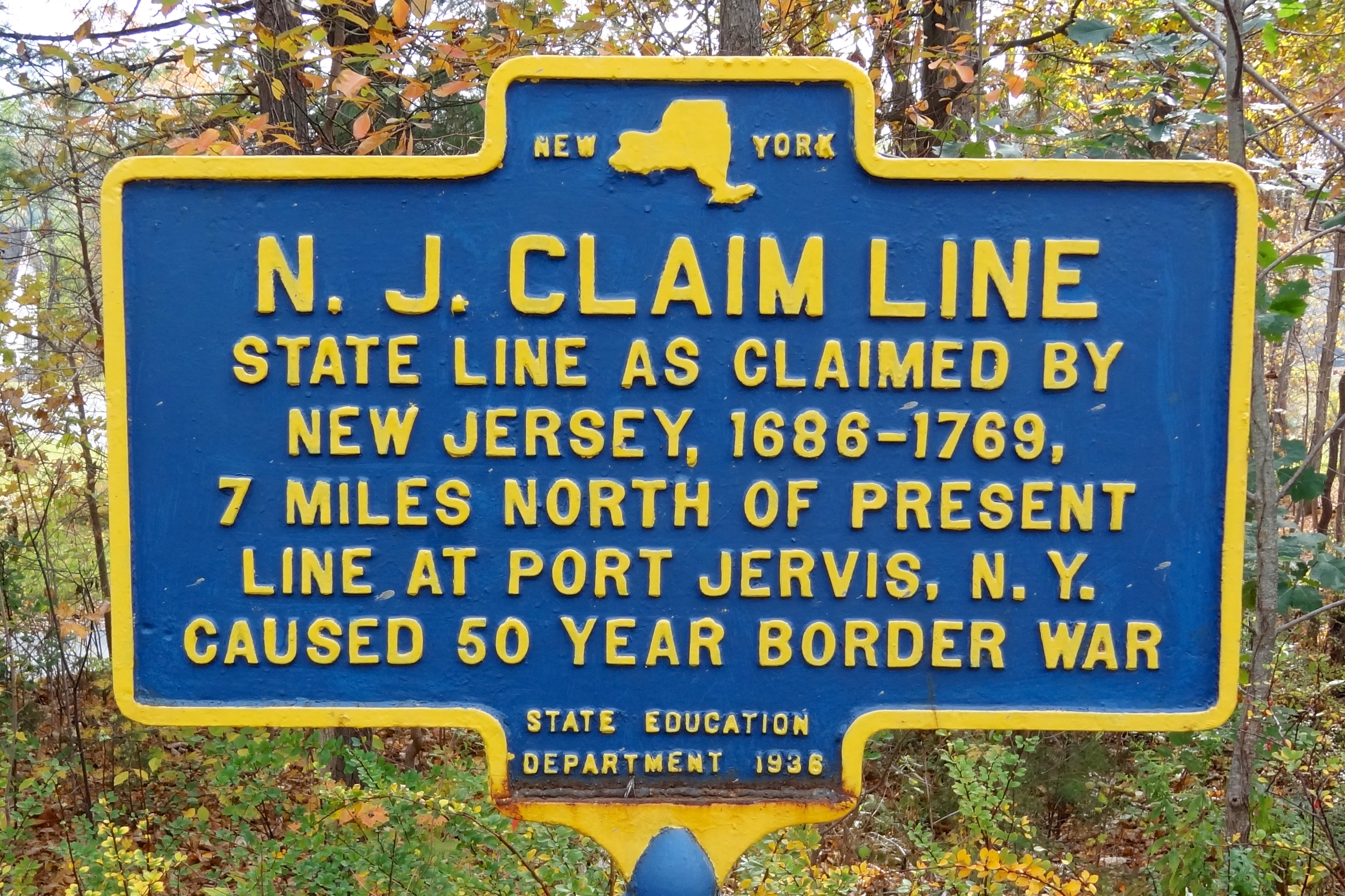 New York State Historic Marker along US 209 in Orange County, New York about the N. J. Claim Line.